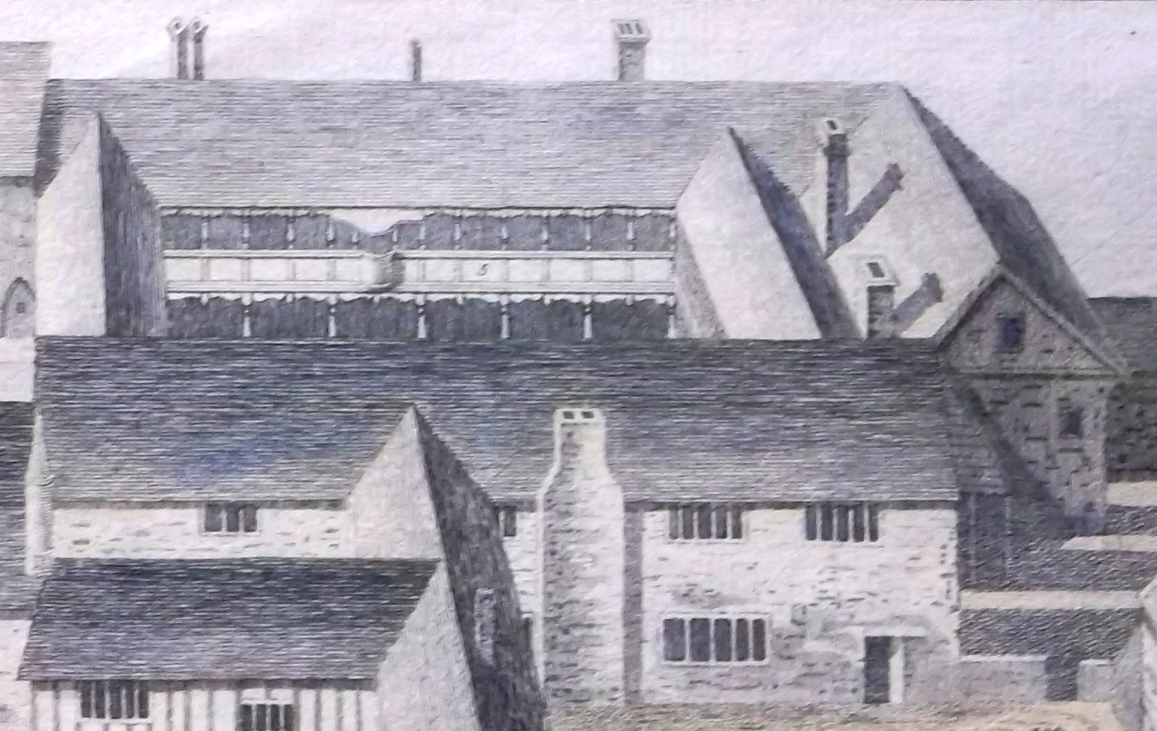 The galleried courtyard of Christ's Hospital, Ipswich in 1748, detail from a Prospect by Joshua Kirby